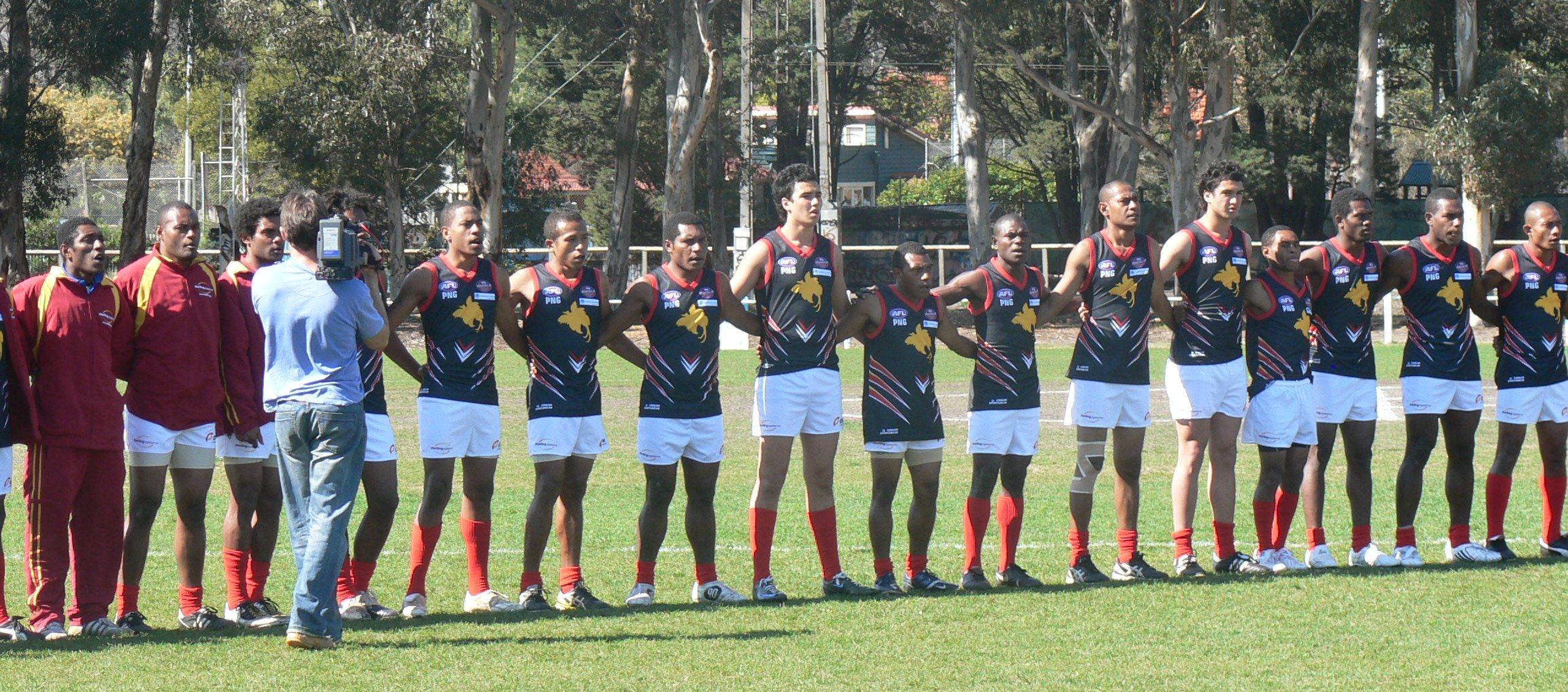 Papua New Guinea Australian rules football side lining up for the national anthem at the 2008 International Cup